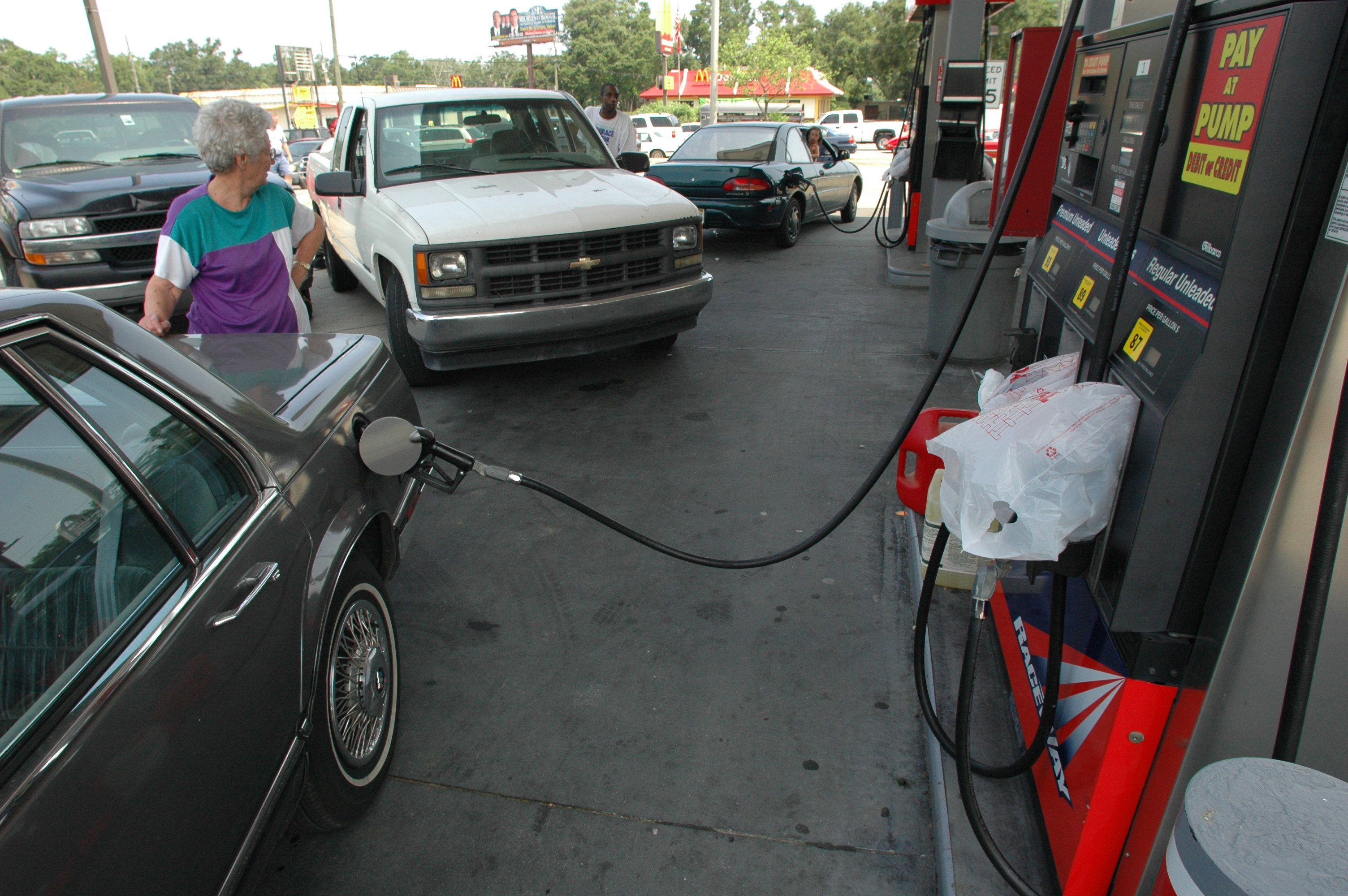 Pensacola, FL, June 8, 2005 -- Pensacola residents and businesses preparing for Hurricane Dennis. Car owners are waiting for over an hour for fuel. Many stations are running out of fuel and closing. FEMA Photo/Leif Skoogfors